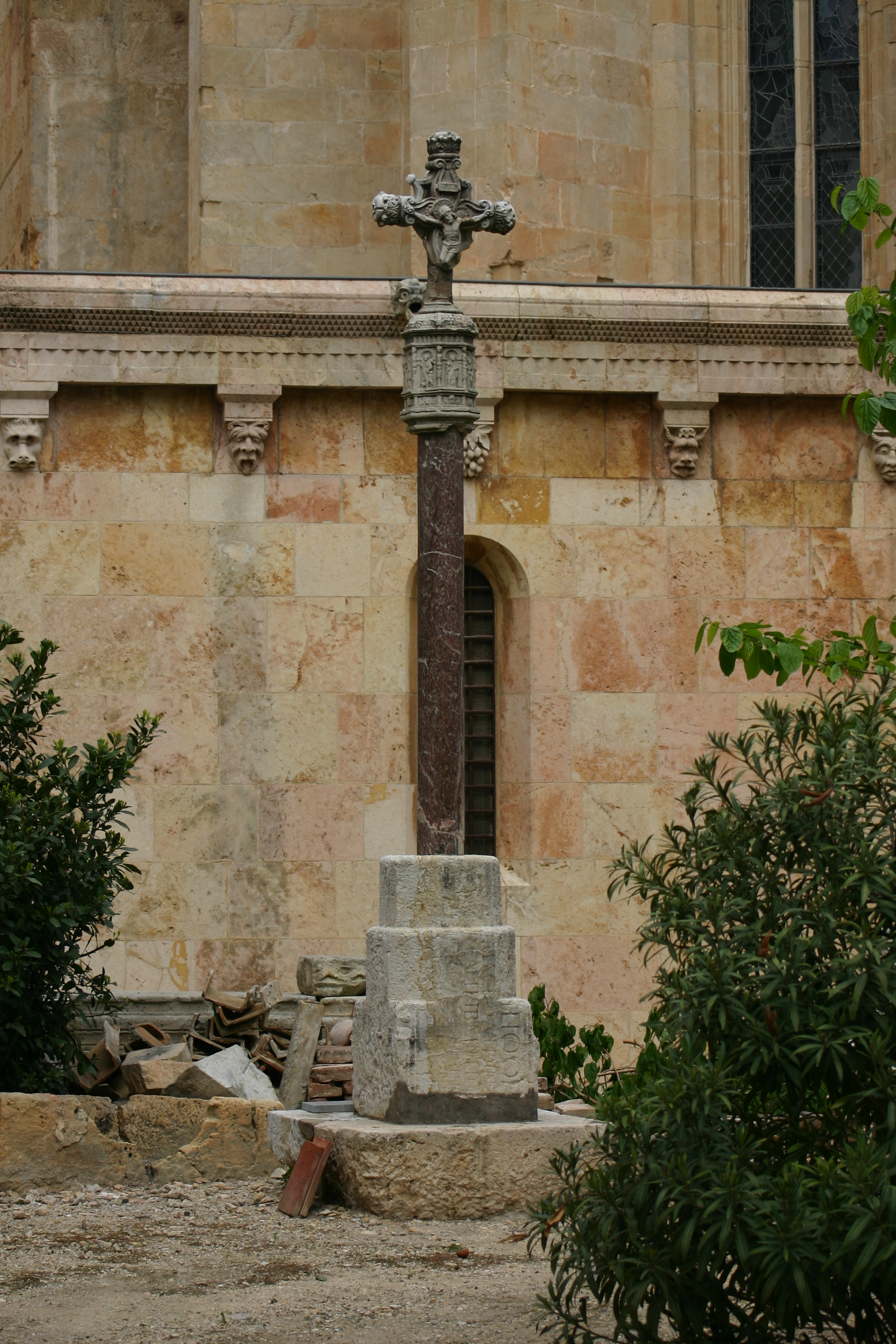 Cathedral of Tarragona, Catalonia (Spain)